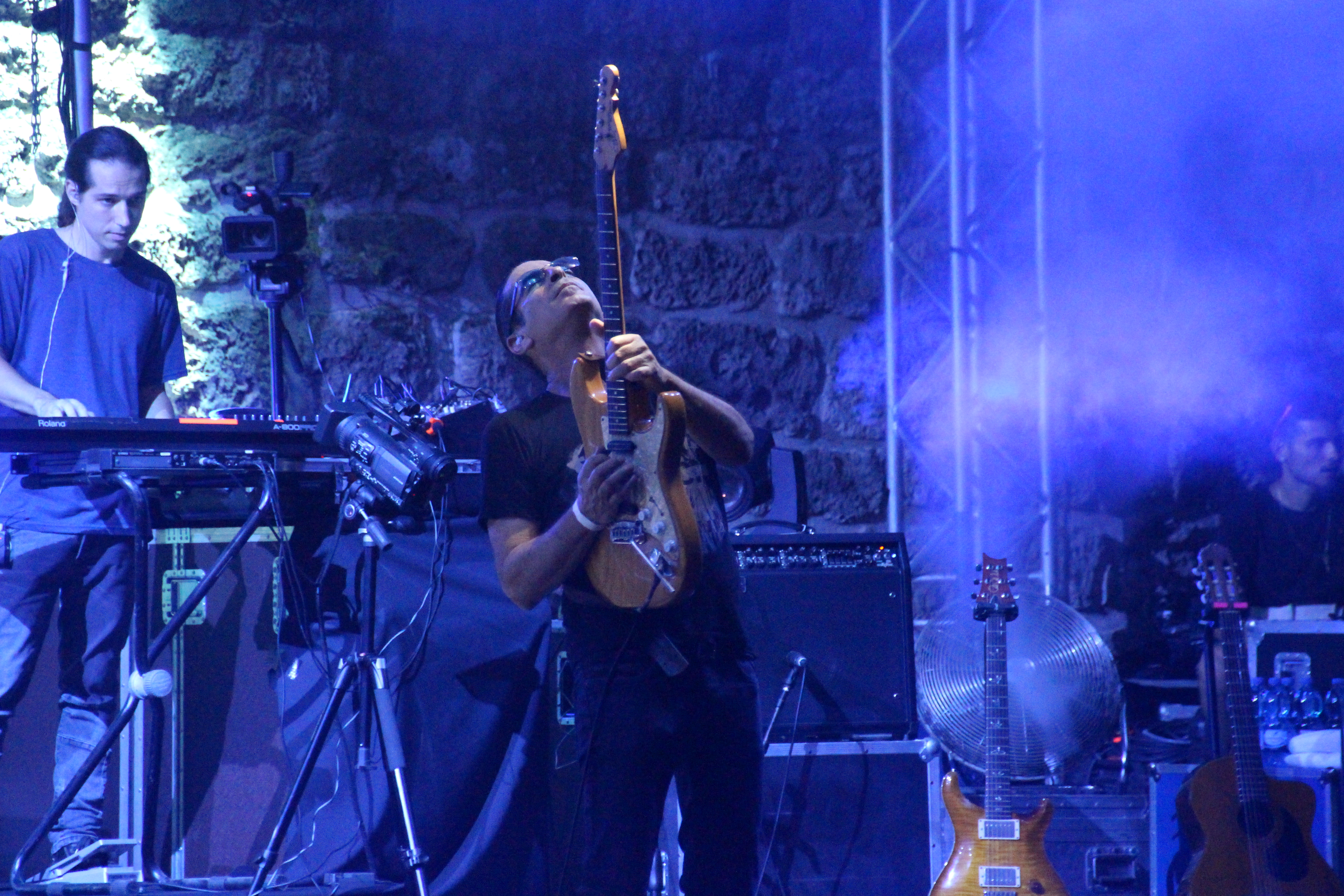 Erez Netz with Infected Mushroom during their show in Amphi Shuni, September 2015.